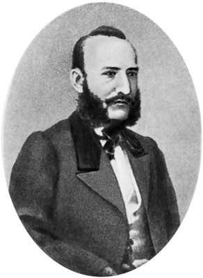 Russian writer Alexander Afanasyev